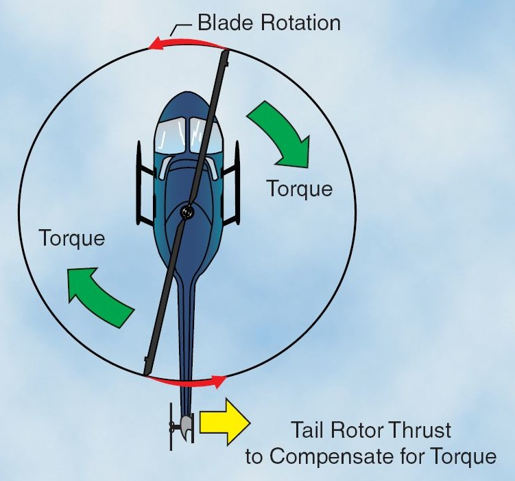 Description of helicopter torque effect. From the FAA Rotorcraft Flying Handbook.